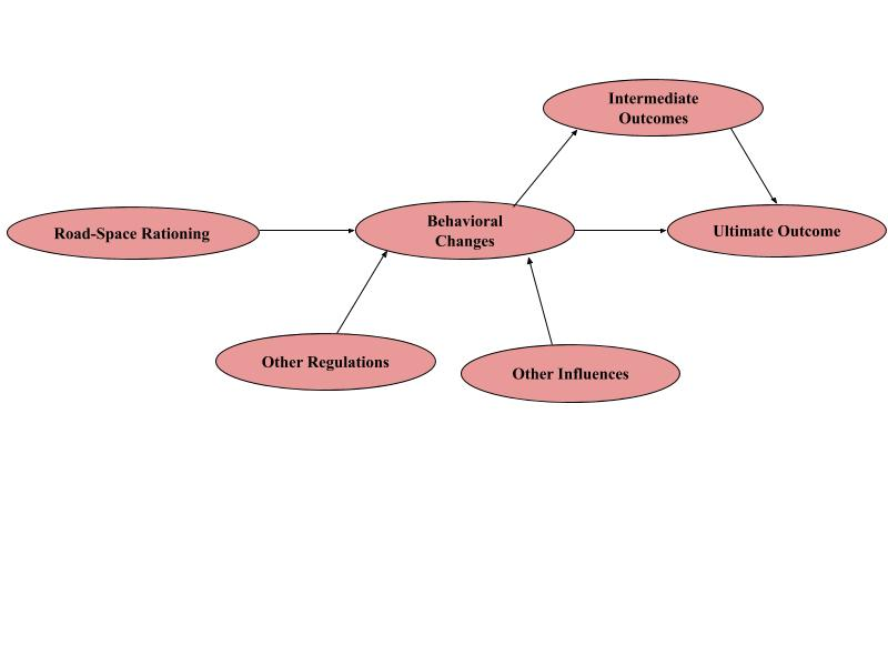 Factors impacting behavioral and outcome changes resulting from Road Space Rationing